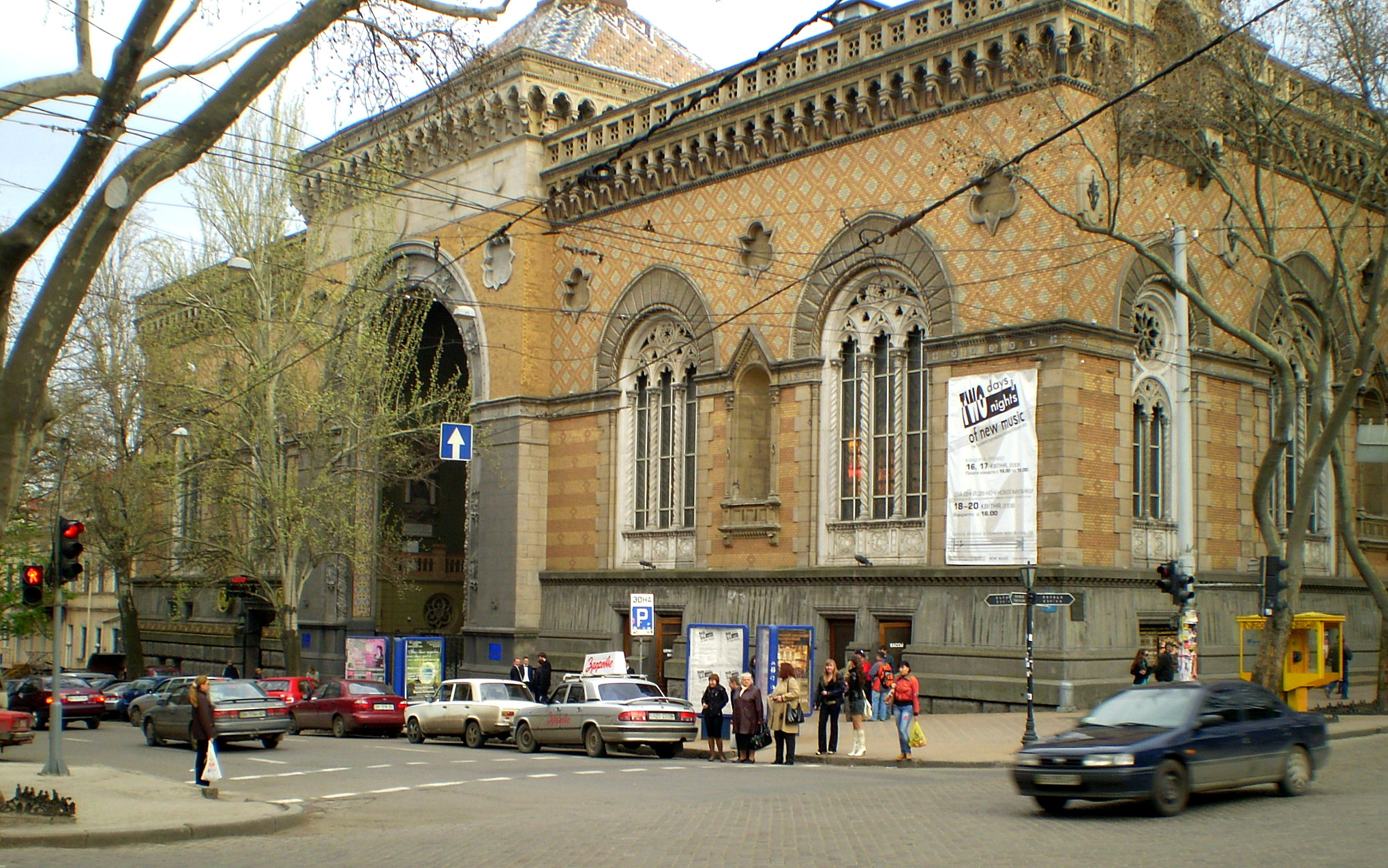 Odessa State Philharmonic Theatre